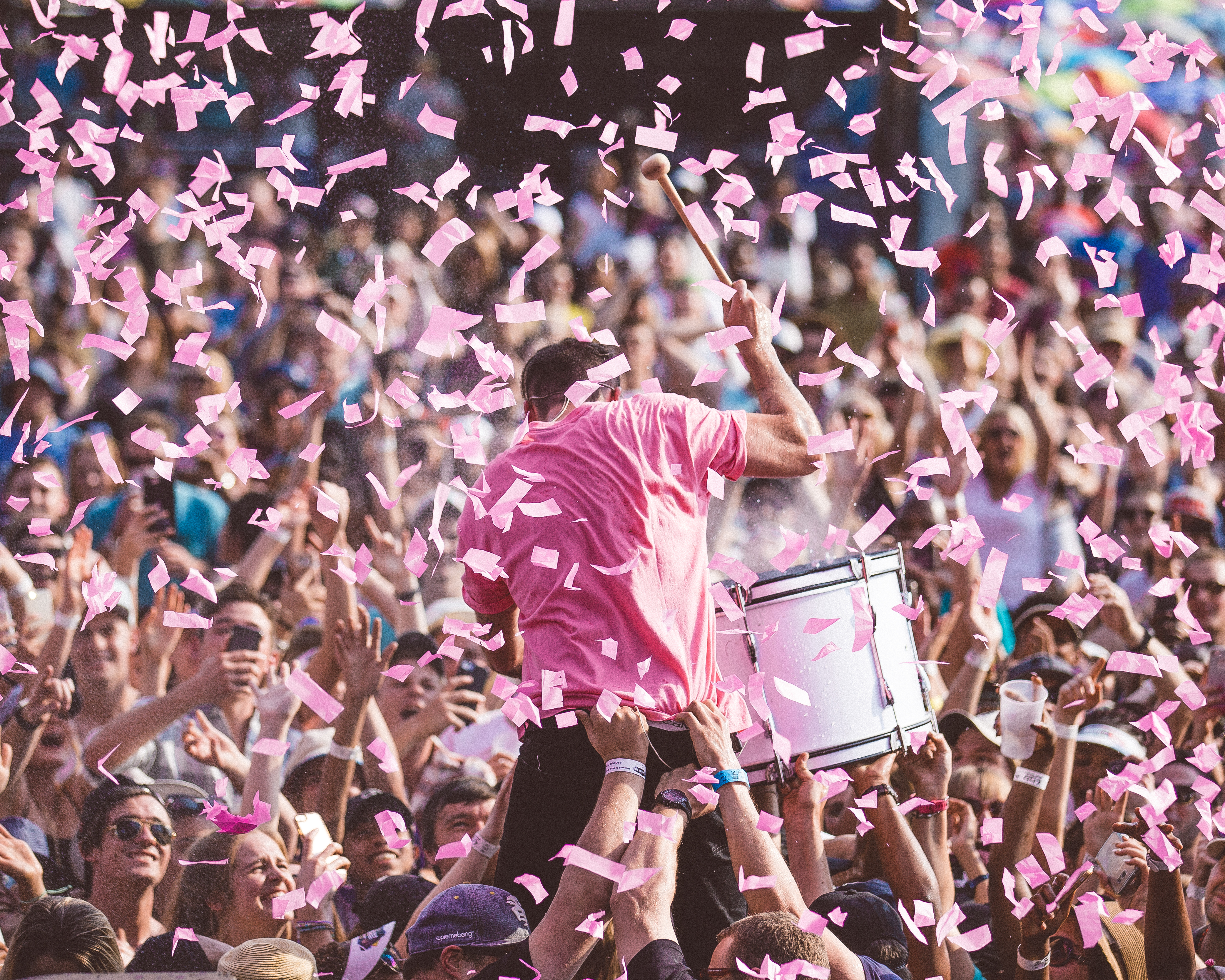 Matthew Mole performing at Huawei Joburg Day on Saturday 9 September 2017.